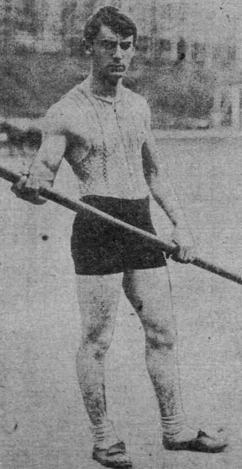 American athlete Alfred Carlton Gilbert